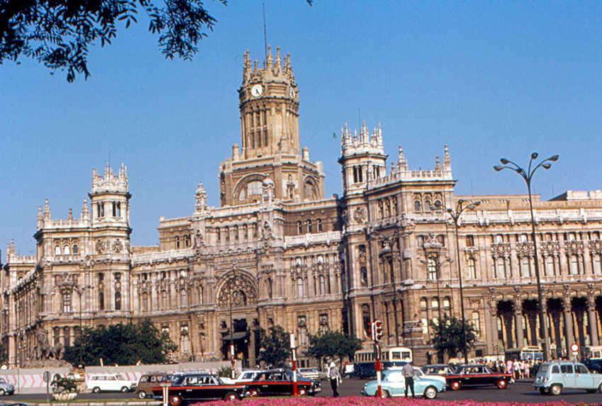 The Main Post Office was built in 1905-1917. It is officially "Palacio de las Comunicaciones," Because of its cathedral-like appearance is sometimes called "Our Lady of the Post."